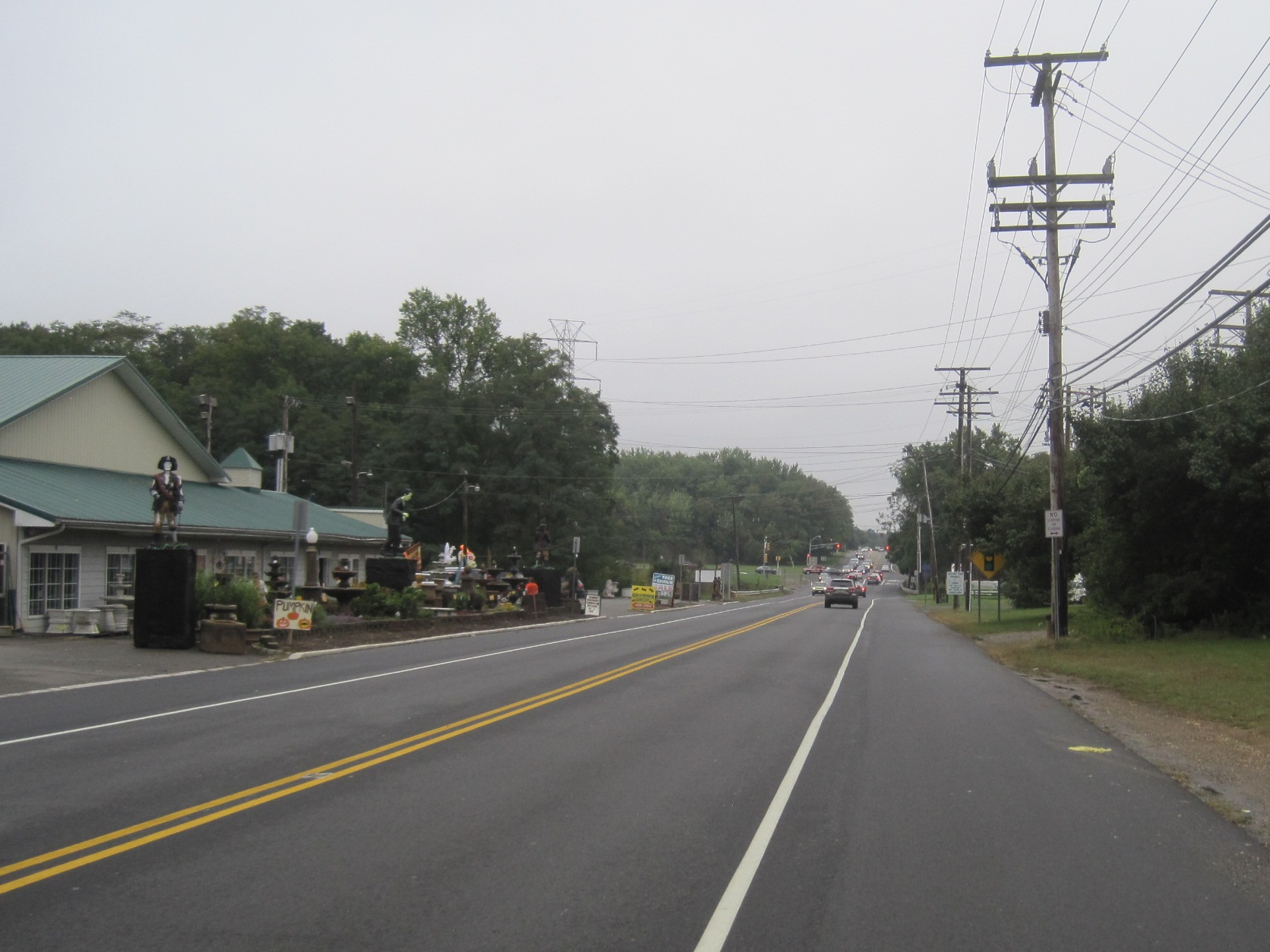 Photograph showing the center of Colts Neck, New Jersey (the unincorporated settlement and the township of the same name). Photo taken along southbound New Jersey Route 34 approaching County Route 537.